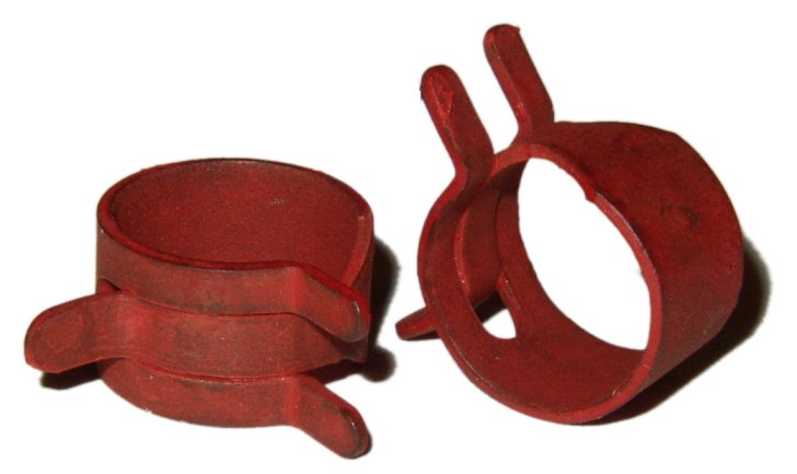 A pair of spring-type hose clamps. I took this picture myself, and am releasing it under the GFDL.